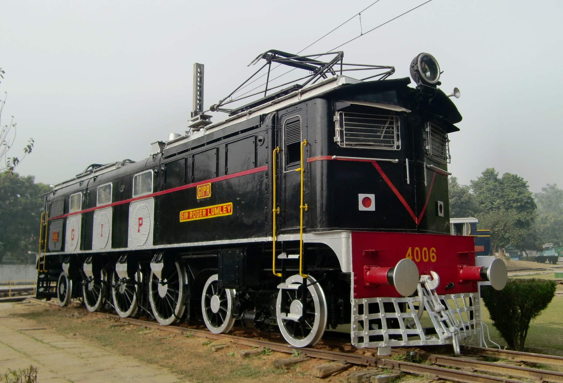 Indian electric locomotive 4006, built 1930, named Sir Loger Lumley, special shaft arrange 1AAA2